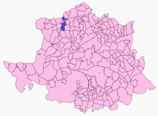 Santíbañez el Alto